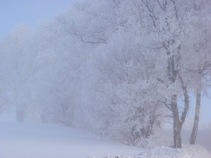 Frosty trees in Överum, Västervik Municipality, Kalmar County, the Provence of Småland, in 2010.